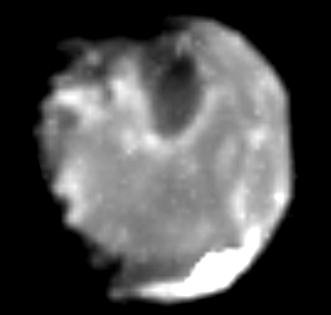 Image of the inner Jovian moon Amalthea, taken January 4, 2000 by NASA's Galileo spacecraft at a range of 238,000 kilometers (about 148,000 miles). The highest-resolution image ever obtained for Amalthea. The image resolve surface features as small as 2.4 kilometers (about 1.5 miles) across. In late 1999 and early 2000, near the end of a two-year mission extension known as the Galileo Europa Mission, the Galileo spacecraft dipped closer to Jupiter than it had been since it first went into orbit around the giant planet in 1995. These maneuvers allowed Galileo to make three flybys of the volcanically active moon Io and also made possible these new high-quality images of Thebe, Amalthea, and Metis, which lie very close to Jupiter, inside the orbit of Io. We are viewing the side of the moon that faces permanently away from Jupiter, and north is approximately up. The large white region near the south pole of Amalthea marks the location of the brightest patch of surface material seen anywhere on the moon. This unusual material, which sits inside a large crater named Gaea, has been greatly overexposed; accordingly, the white area on this image is somewhat larger than the actual bright area on Amalthea. Note also the "scalloped" or "sawtooth" shape of Amalthea's terminator (the line between day and night, at the left-hand edge of Amalthea's disk), which indicates that parts of this satellite's surface are very rough, with many small hills and valleys.